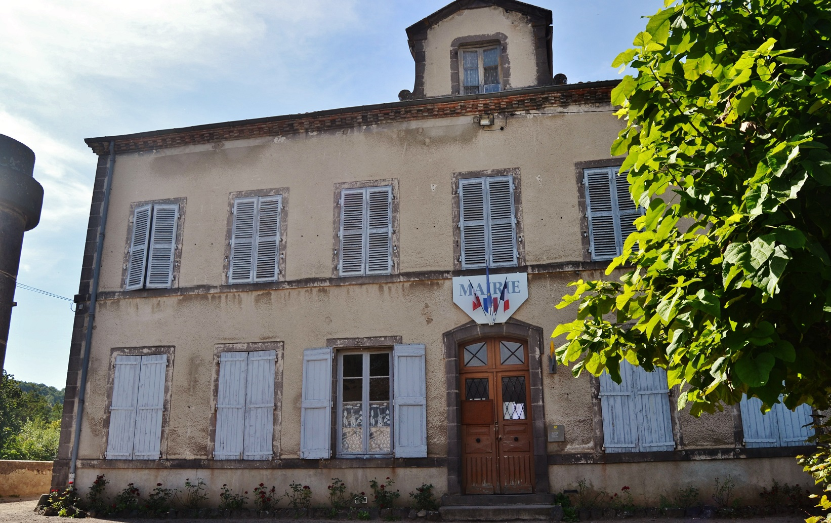 La Mairie